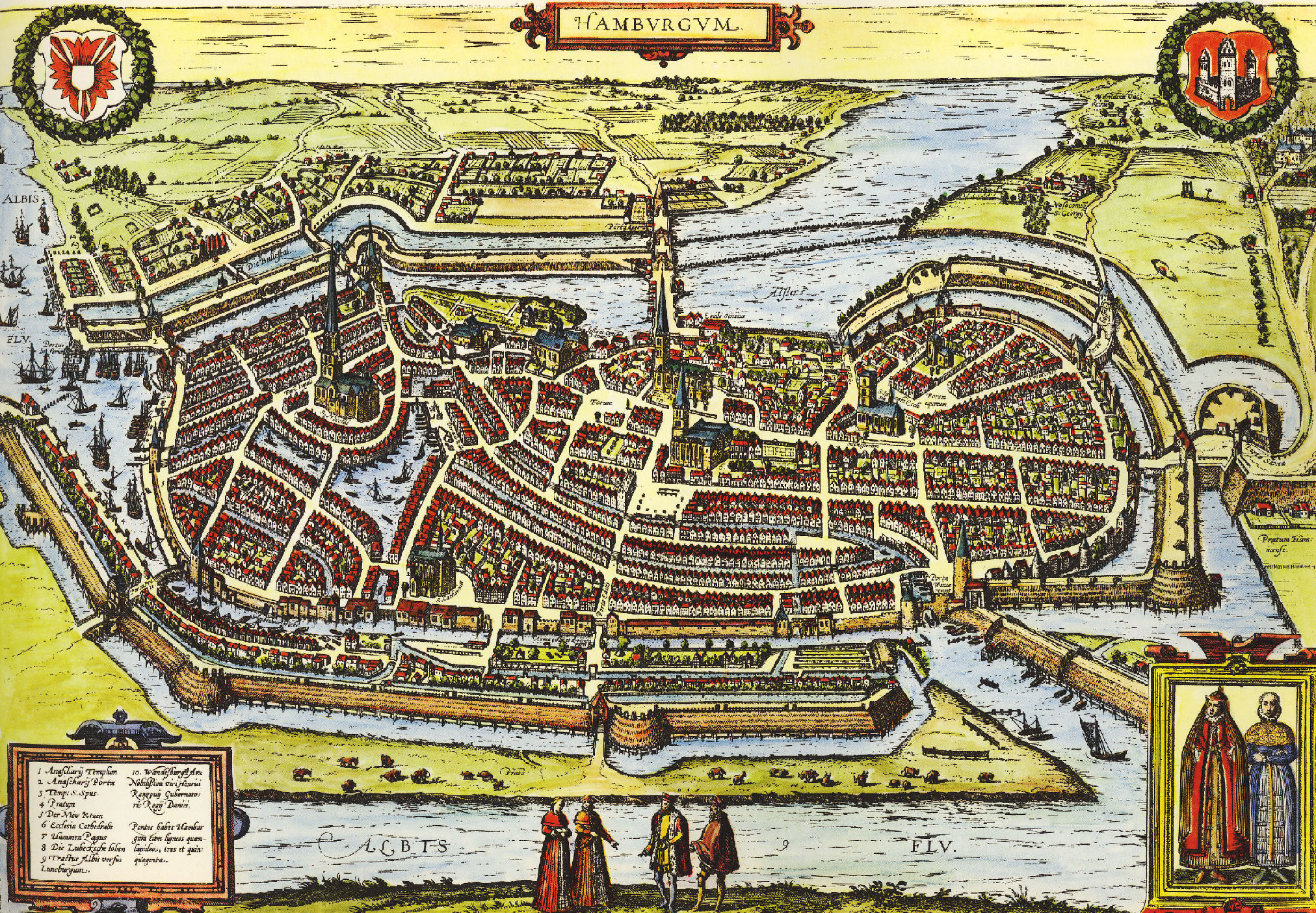 Historical sight of the German town of Hamburg Hogenberg visited Hamburg in 1585 and again in 1588. St. Nicolai church (on the left) is shown with the enormous spire of 1517, to be destroyed in 1589, still intact. St. Jacobi church (on the right) however is shown without any trace of the spire built in 1587-89 and depicted in Braun/Hogenberg's next Hamburg map of ca. 1589/90.